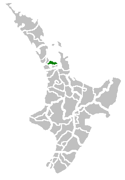 I made this file and I hereby pronounce it Public Domain